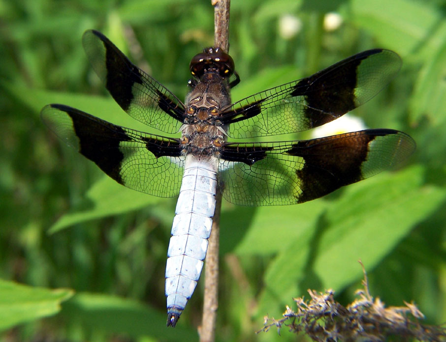 jpeg image, Adult male Common Whitetail Dragonfly, Libellula lydia